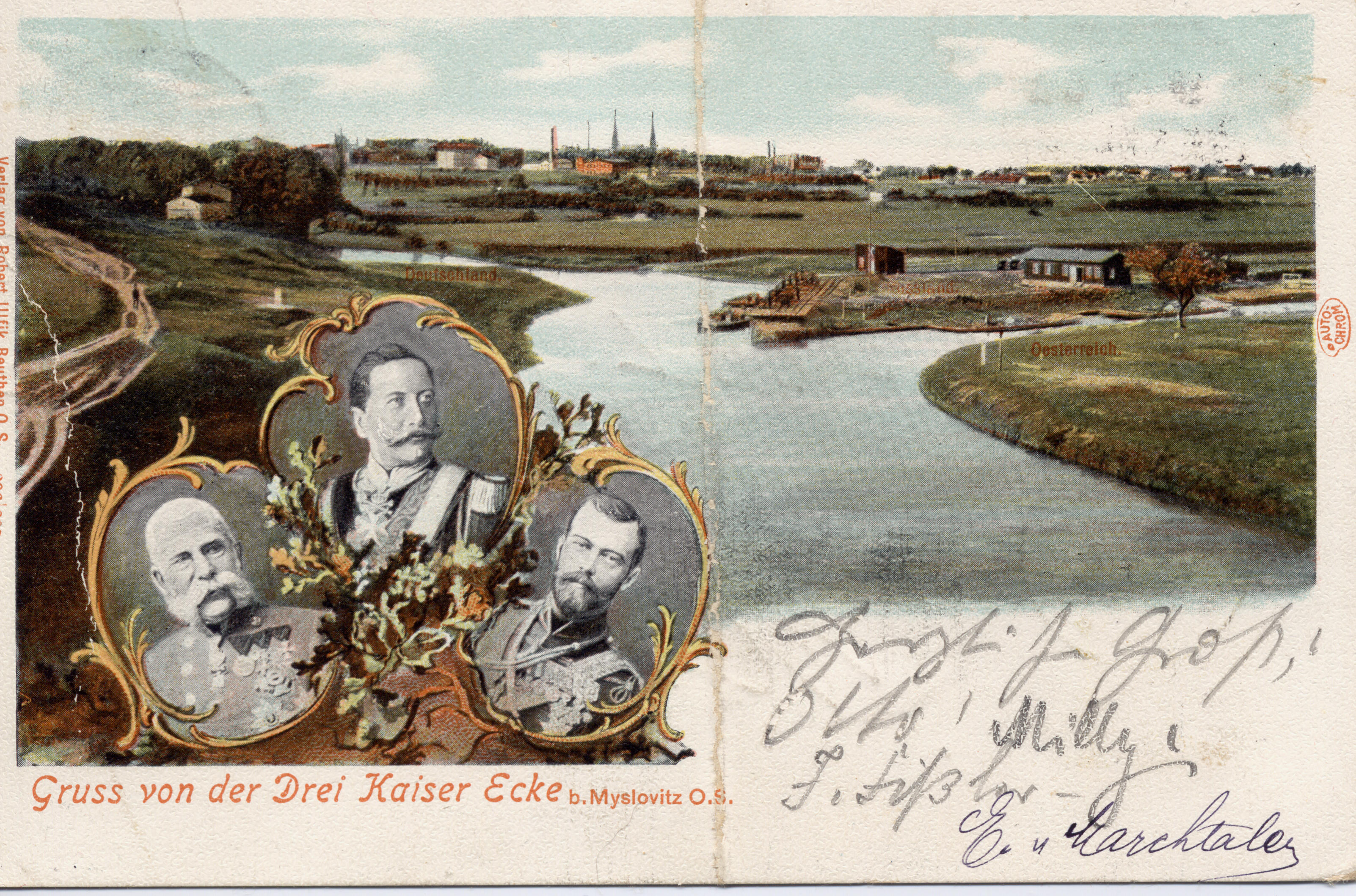 1902 postcard, Three Emperors' Corner - border between three countries Germany, Austria-Hungary and Russia. View form Myslowitz. Emperors on the photo, from the left: Franz Joseph I of Austria, Wilhelm II of Prussia, Nicholas II of Russia